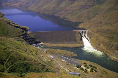 John Brownlee operated a ferry at this location to serve Oregon Trail emigrants and prospectors bound for the Boise Basin along the Goodale Trail.